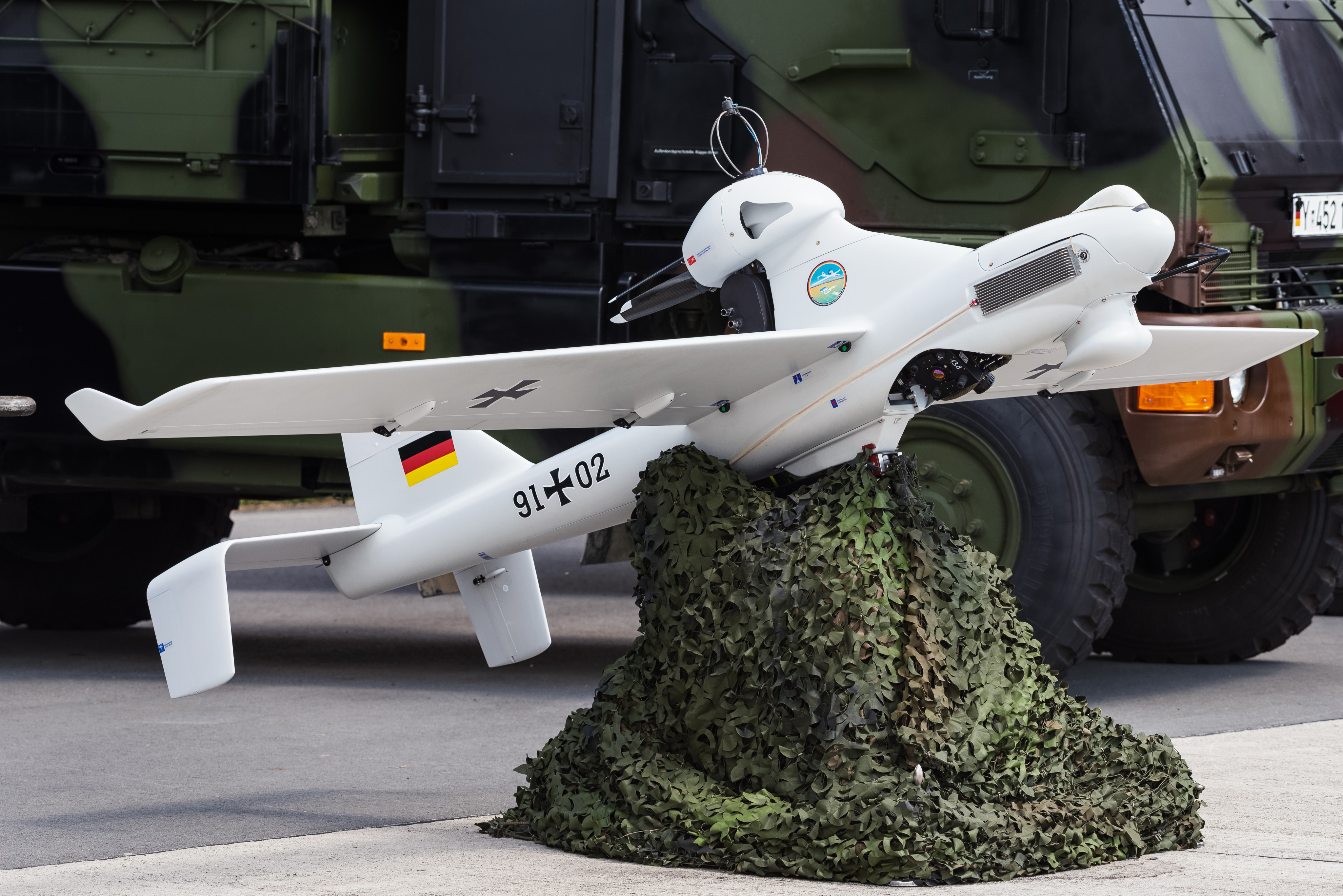 German Army EMT LUNA X-2000 UAV (reg. 91+02) at ILA Berlin Air Show 2016.